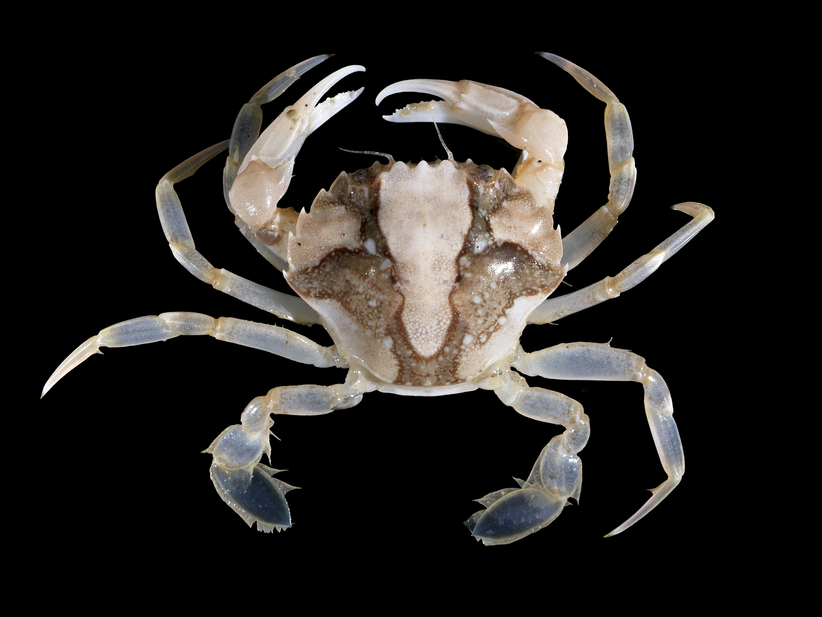 Grey swimming crab from the Belgian coastal waters